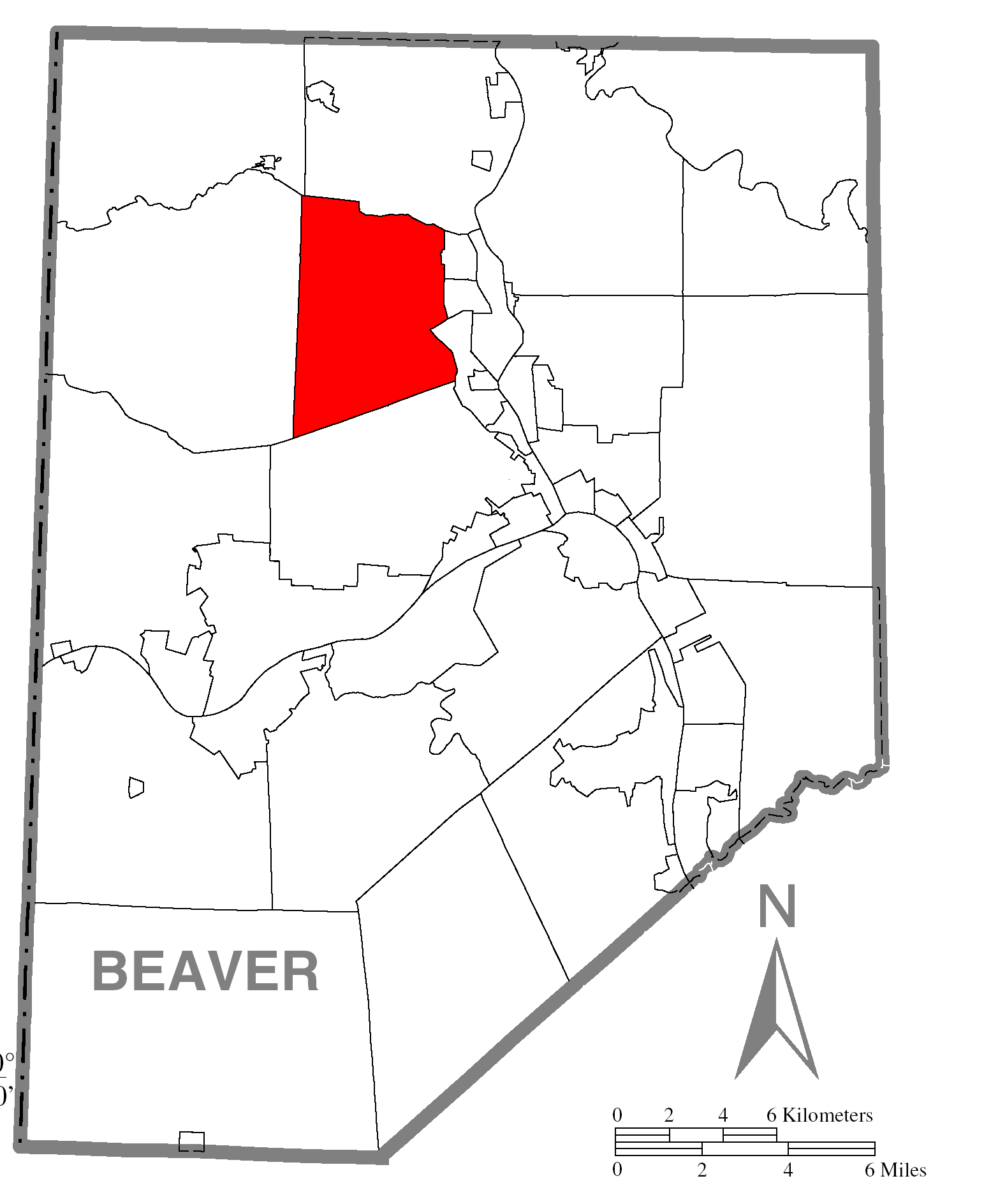 A map of Beaver County showing Chippewa Township, Pennsylvania (alternate) highlighted on the map.